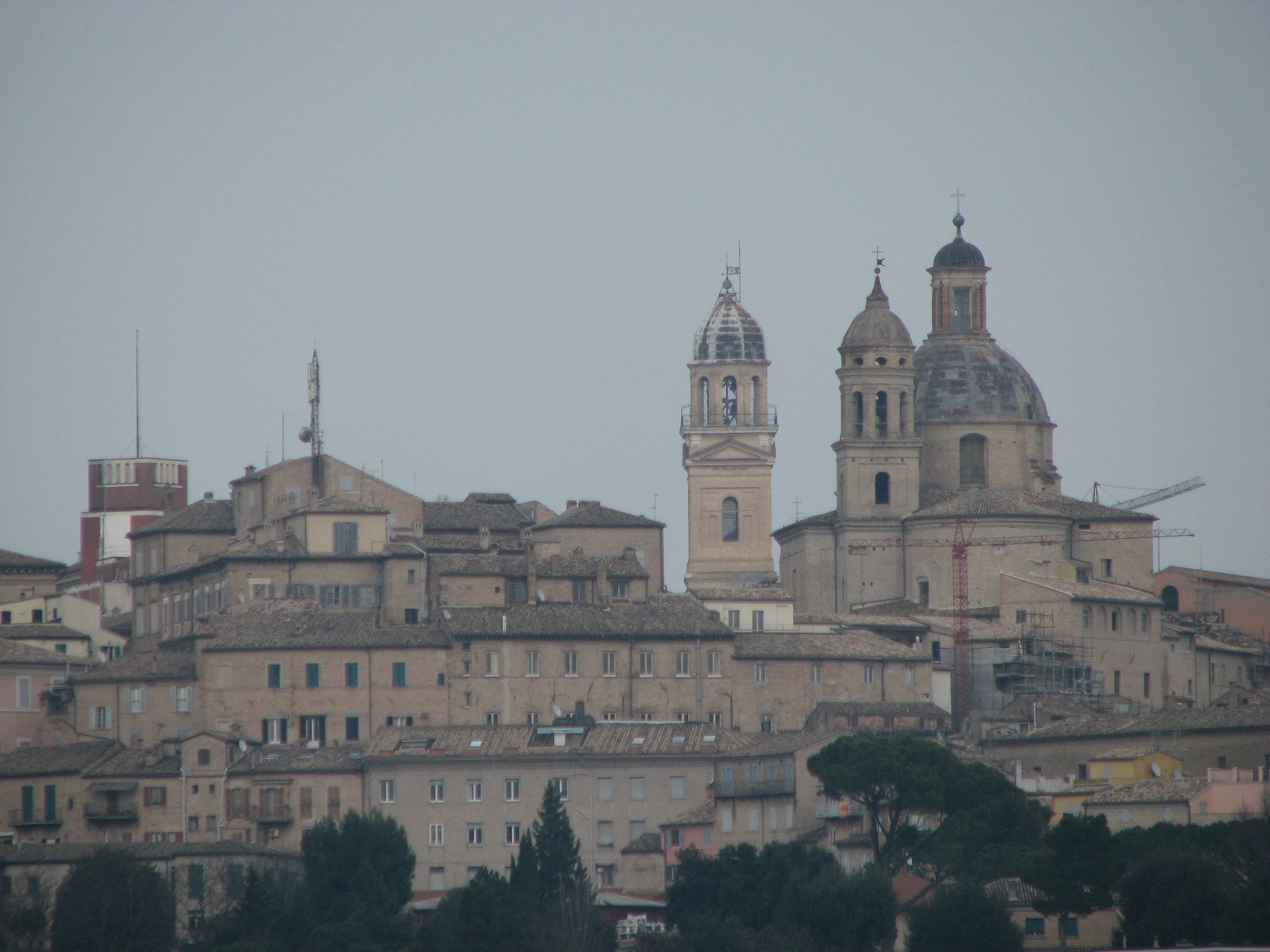 Panorama of Macerata